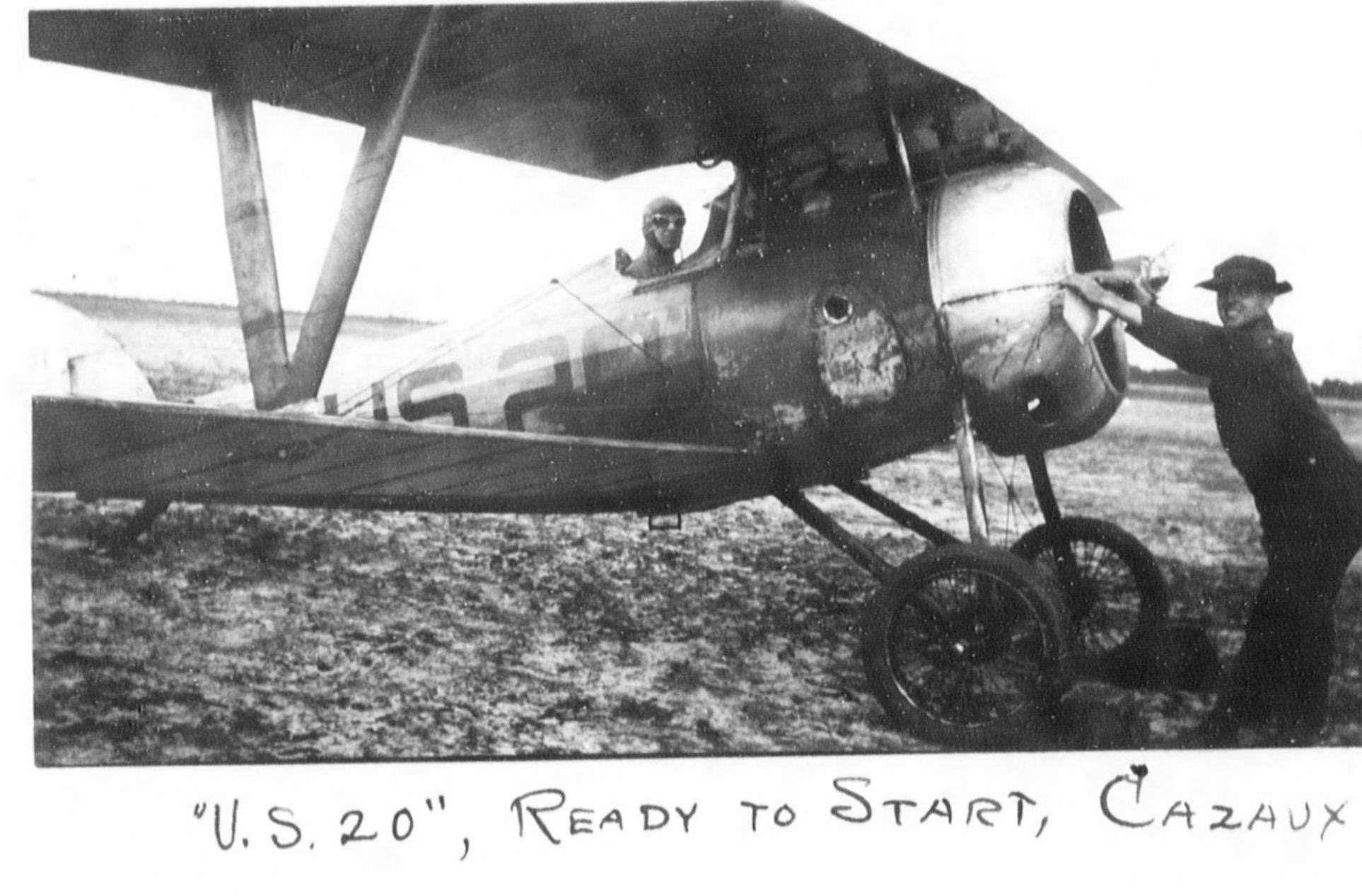 Cazaux AIC - Nieuport Aircraf US 20